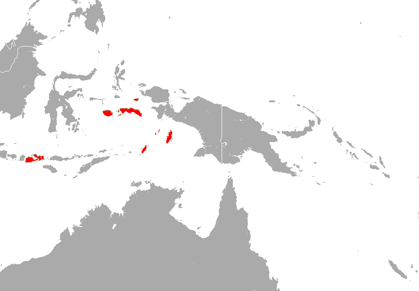 Black-bearded Flying Fox (Pteropus melanopogon) range